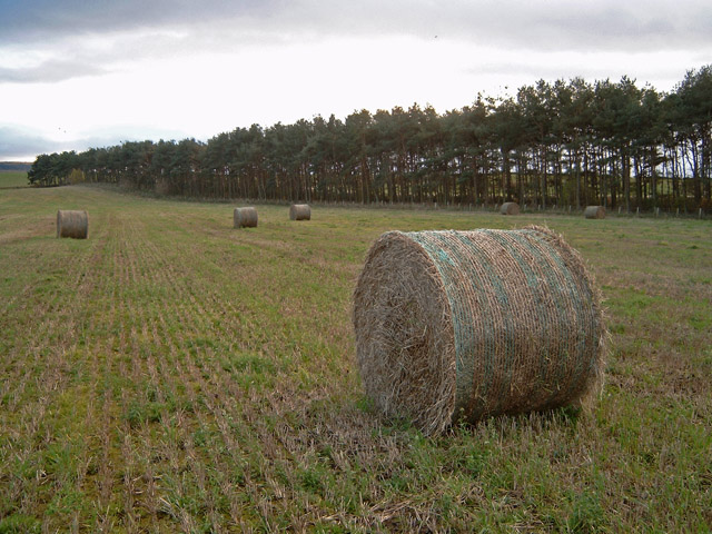 Shelterbelt near Balnaspirach